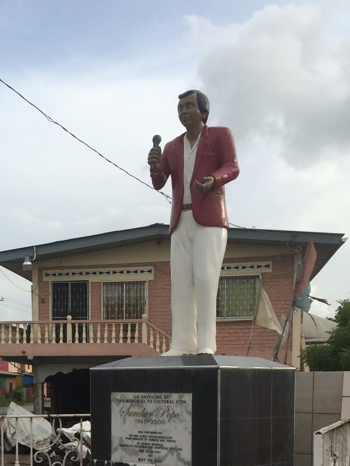 Sundar Popo statue in Debe, Trnidad and Tobago.